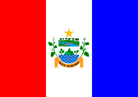 Flag of Dois Riachos, a municipality of the Brazilian state of Alagoas